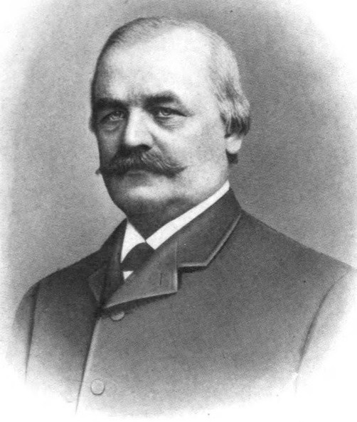 John S. Newberry (1826-1887) was an attorney, businessman, and politician in Michigan whose career included service as a US Congressman from 1879 to 1881.